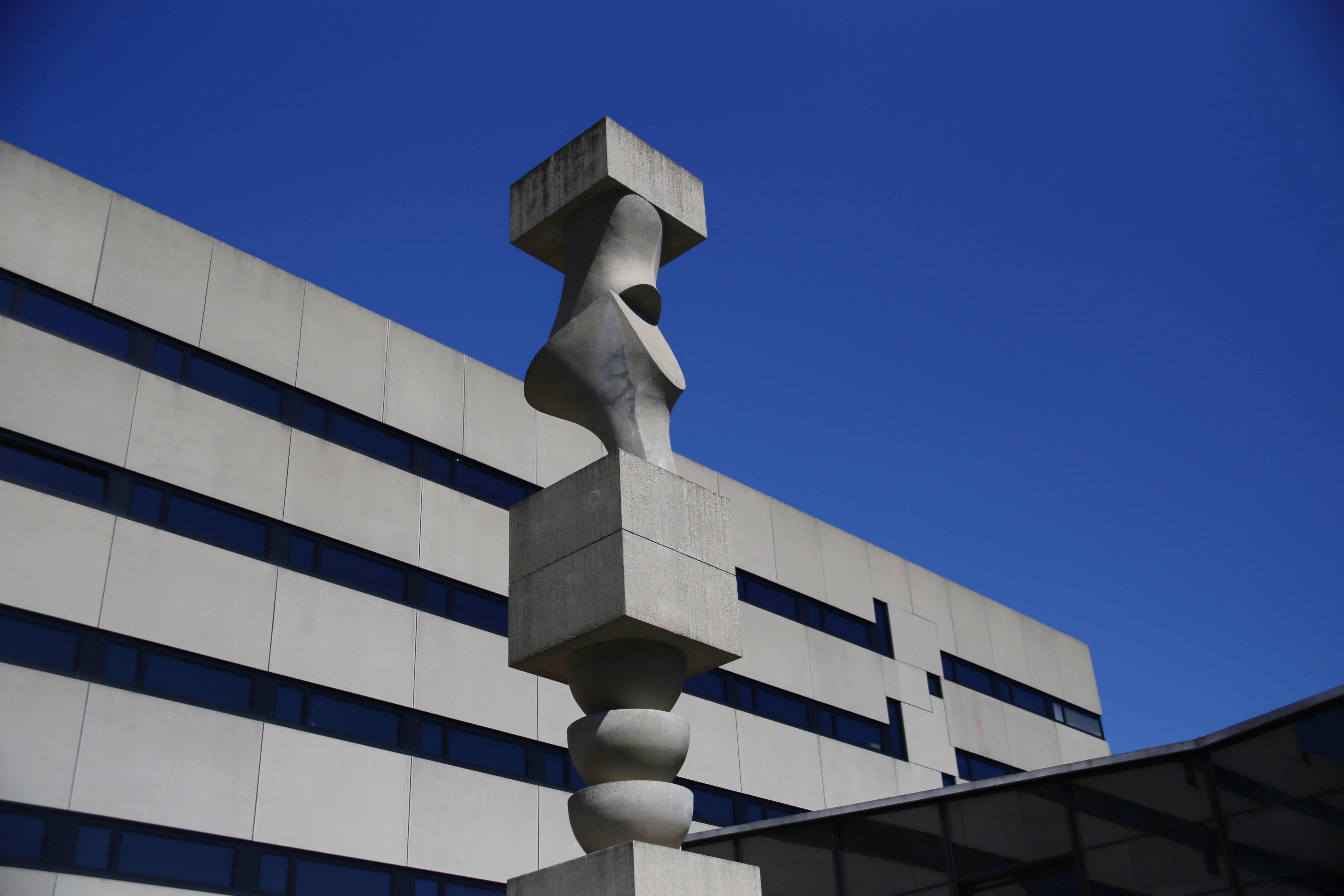 Sculpture by Jean Arp. Campus of the Allgemeine Gewerbeschule Basel / Schule für Gestaltung Basel, built 1956-61.